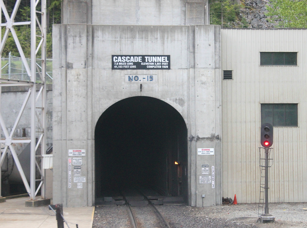 Eastern portal of the BNSF Cascade Tunnel located at Milepost 1700 on the Scenic Subdivision. The 7.5 mile long railroad tunnel is the longest in the United States. The eastern portal is the site of the 1600hp fan plant that scrubs the tunnel of diesel exhaust fumes after each train passes through.